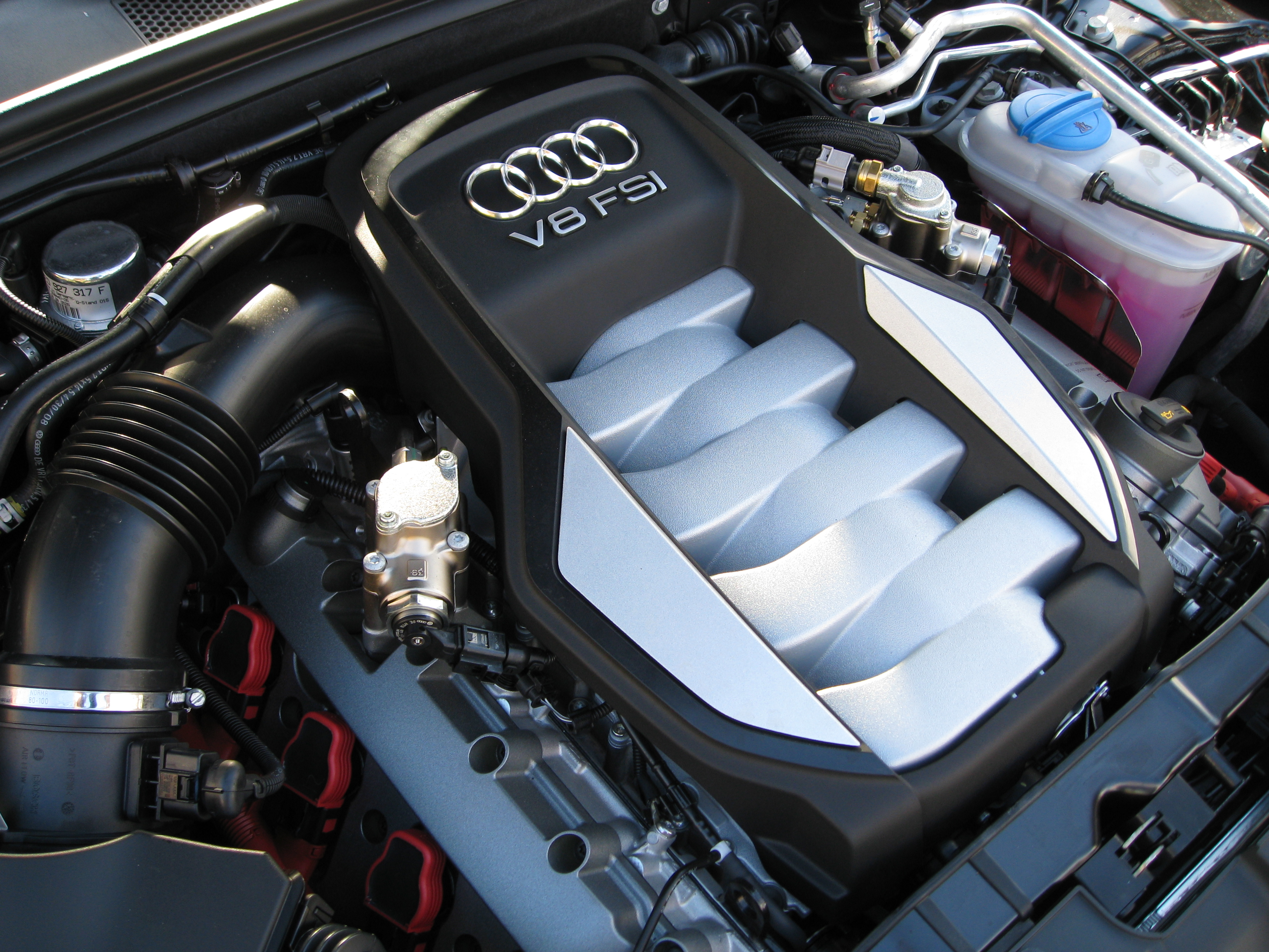 The V8 engine of a Audi S5